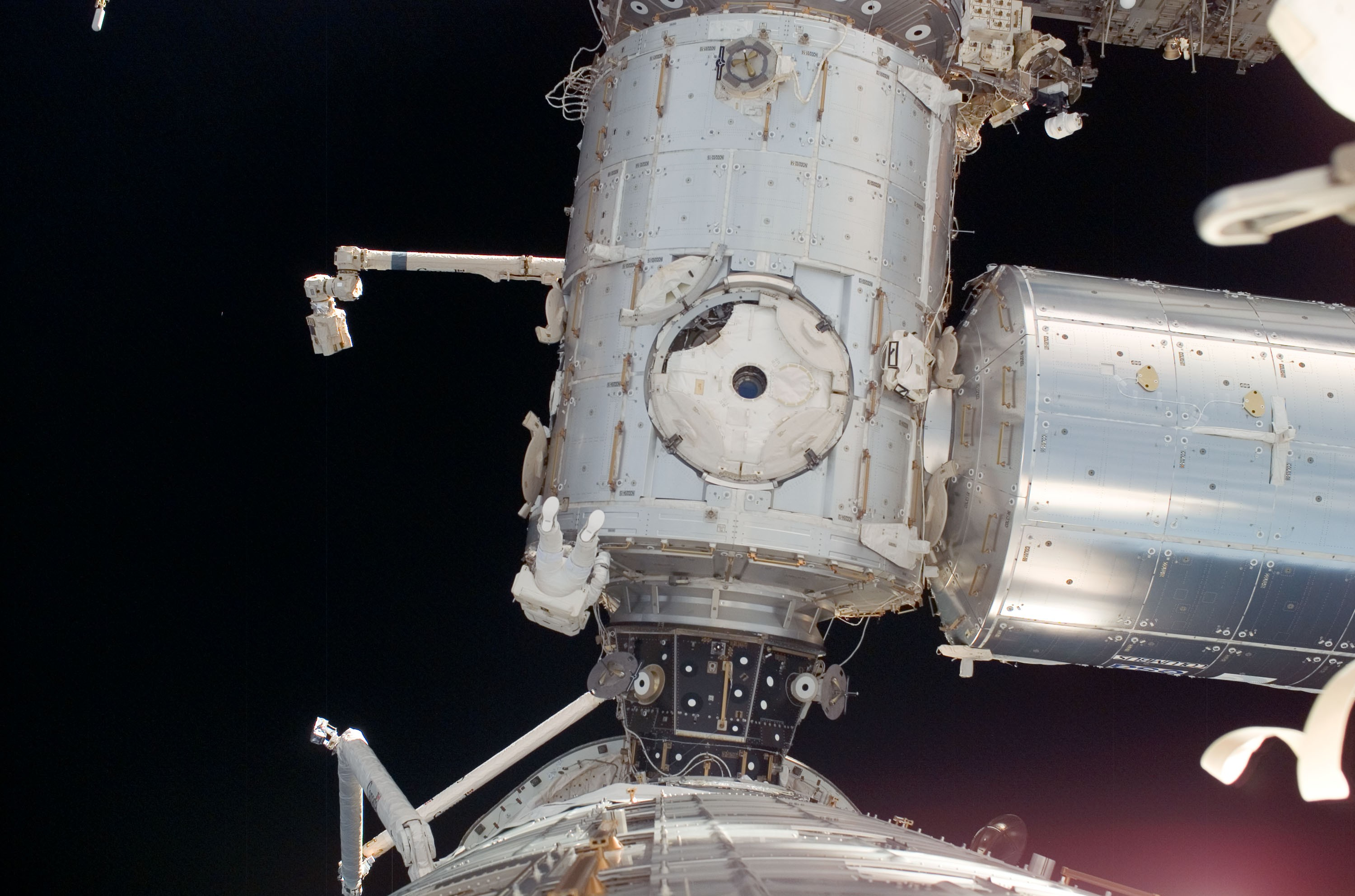 Astronaut Ron Garan, STS-124 mission specialist, participates in the mission's first scheduled session of extravehicular activity (EVA) as construction and maintenance continue on the International Space Station. During the six-hour, 48-minute spacewalk, Garan and astronaut Mike Fossum (out of frame), mission specialist, loosened restraints holding the Orbiter Boom Sensor System in its temporary stowage location on the space station's starboard truss, prepared the Kibo Japanese Pressurized Module for its installation to the space station, demonstrated cleaning techniques for the Solar Alpha Rotary Joint's (SARJ) race ring, and installed a replacement SARJ Trundle Bearing Assembly.